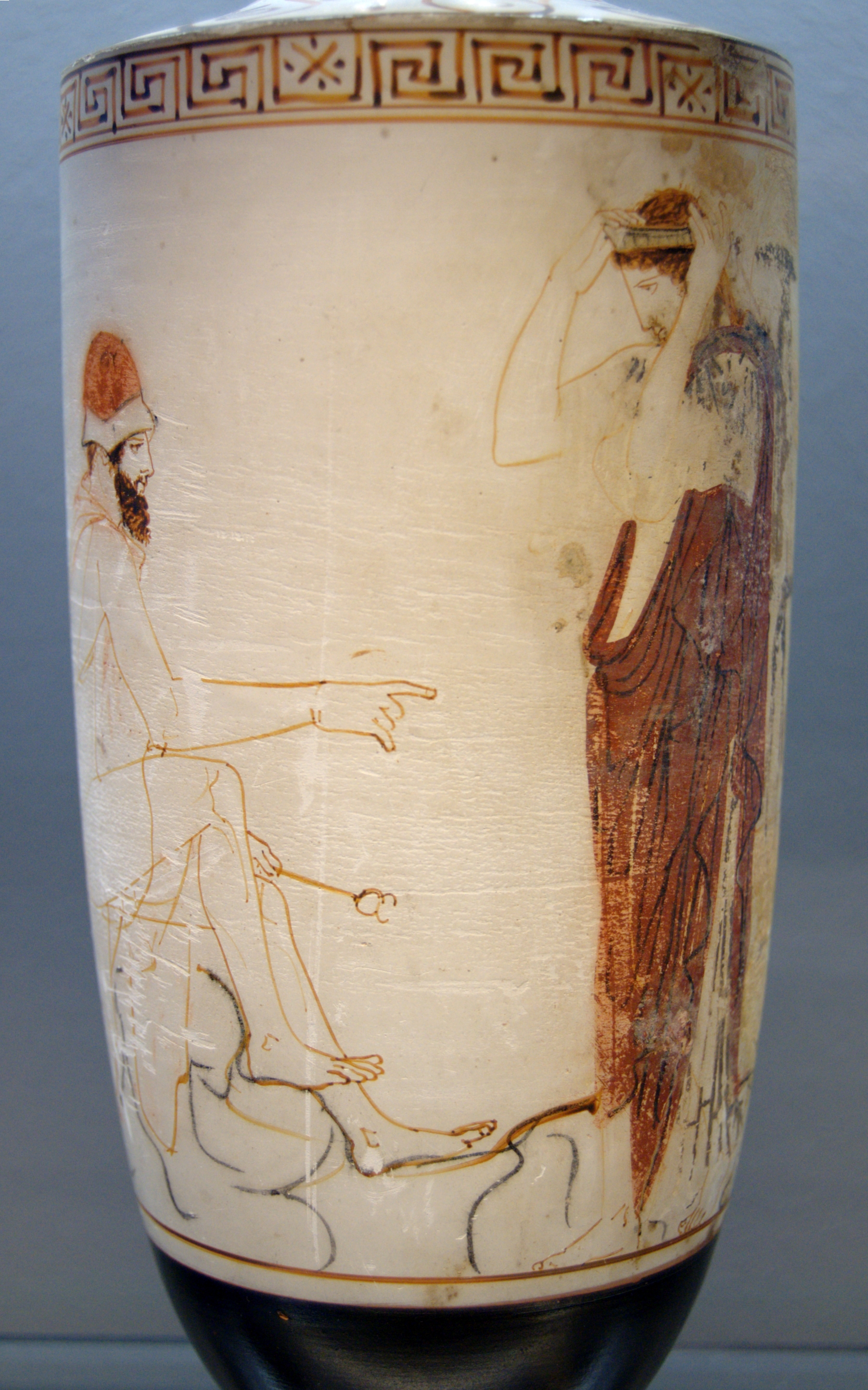 Hermes psykhopompos: sitting on a rock, the god is preparing to lead a dead soul to the Underworld. Attic white-ground lekythos, ca. 450 BC.